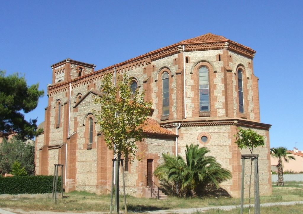 Saleilles (département of Pyrénées-Orientales, Languedoc-Roussillon région, France) : Saint-Etienne church, built in 1894. The bell-tower was never completed.